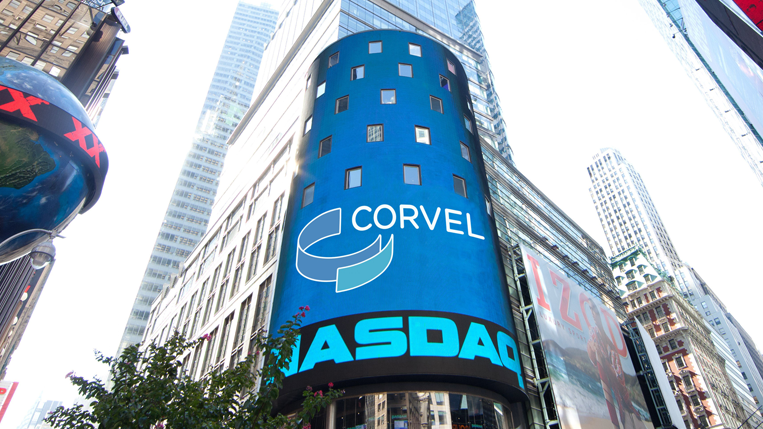 CorVel opened the NASDAQ market in August 2011 to celebrate 20 years as a publically traded company.